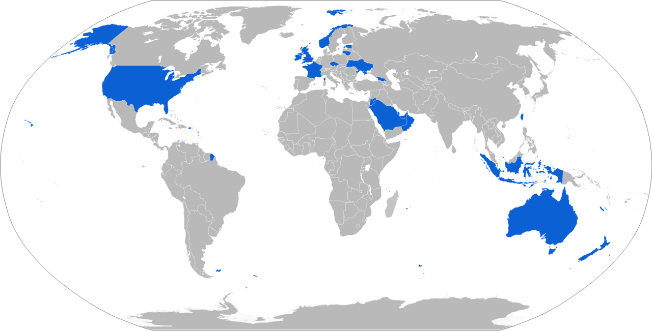 Map with FGM-148 operators in blue